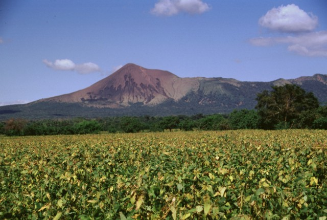 Telica volcano, seen here from the León-Chinandega highway, is one of a group of interlocking cones and vents along a NW trend. The summit of Telica, which is one of Nicaragua's most active volcanoes, is unvegetated, and deep erosional gulleys have been dissected into the lower flanks of the cone. Frequent historical eruptions have been recorded at Telica since the 16th century.